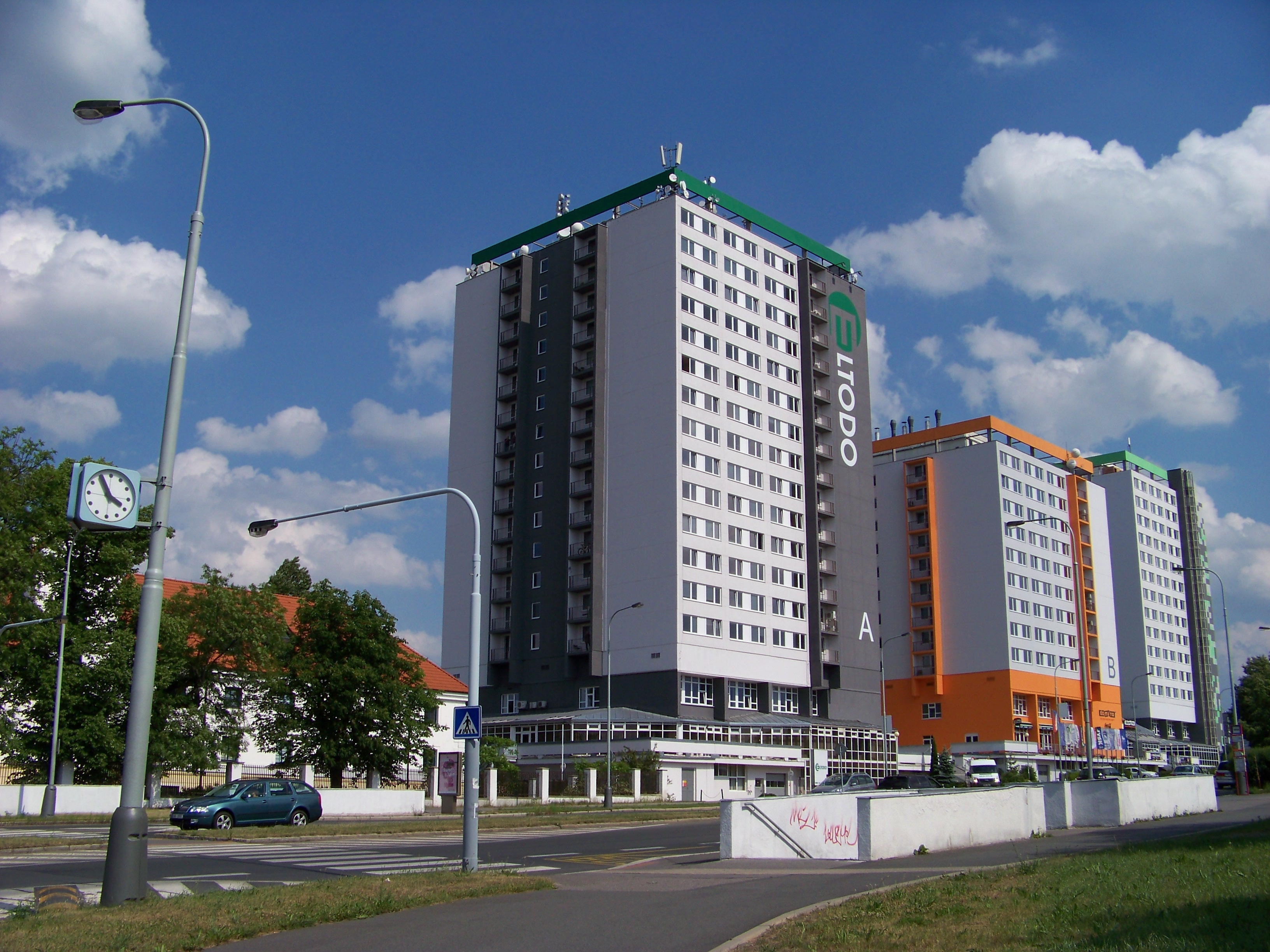 Prague-Kamýk and Lhotka, the Czech Republic. Nové Dvory, Novodvorská street.